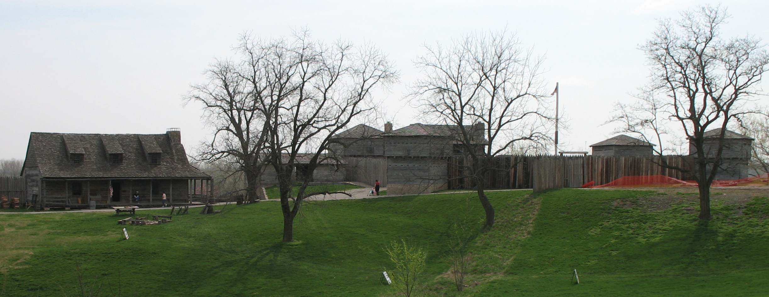 Fort Osage in March 2007 from west. The "factory" trading post is on the left. Photo by poster.